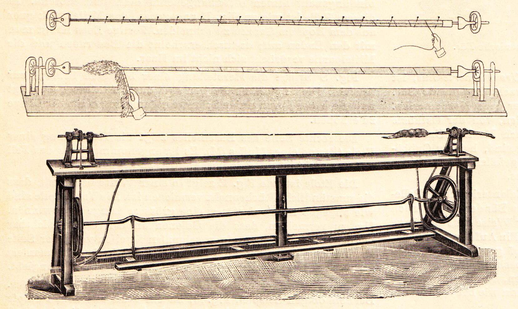 Fur tail and boa turn machine - Schweifdrehmaschine